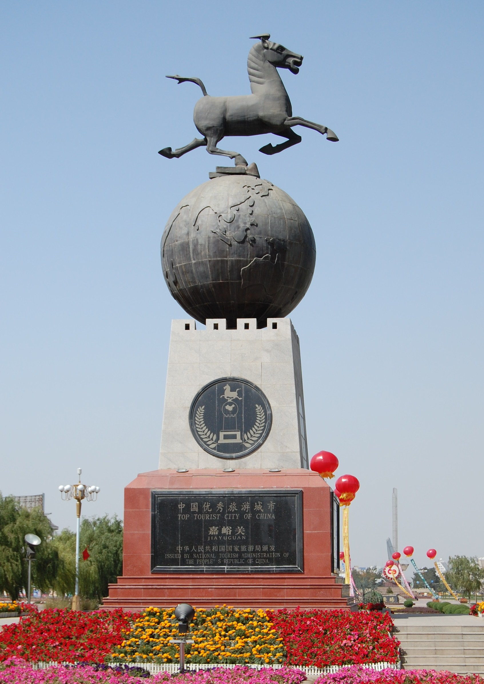 Galopping Horse, the official logotype of China tourism as monument in Jiayuguan